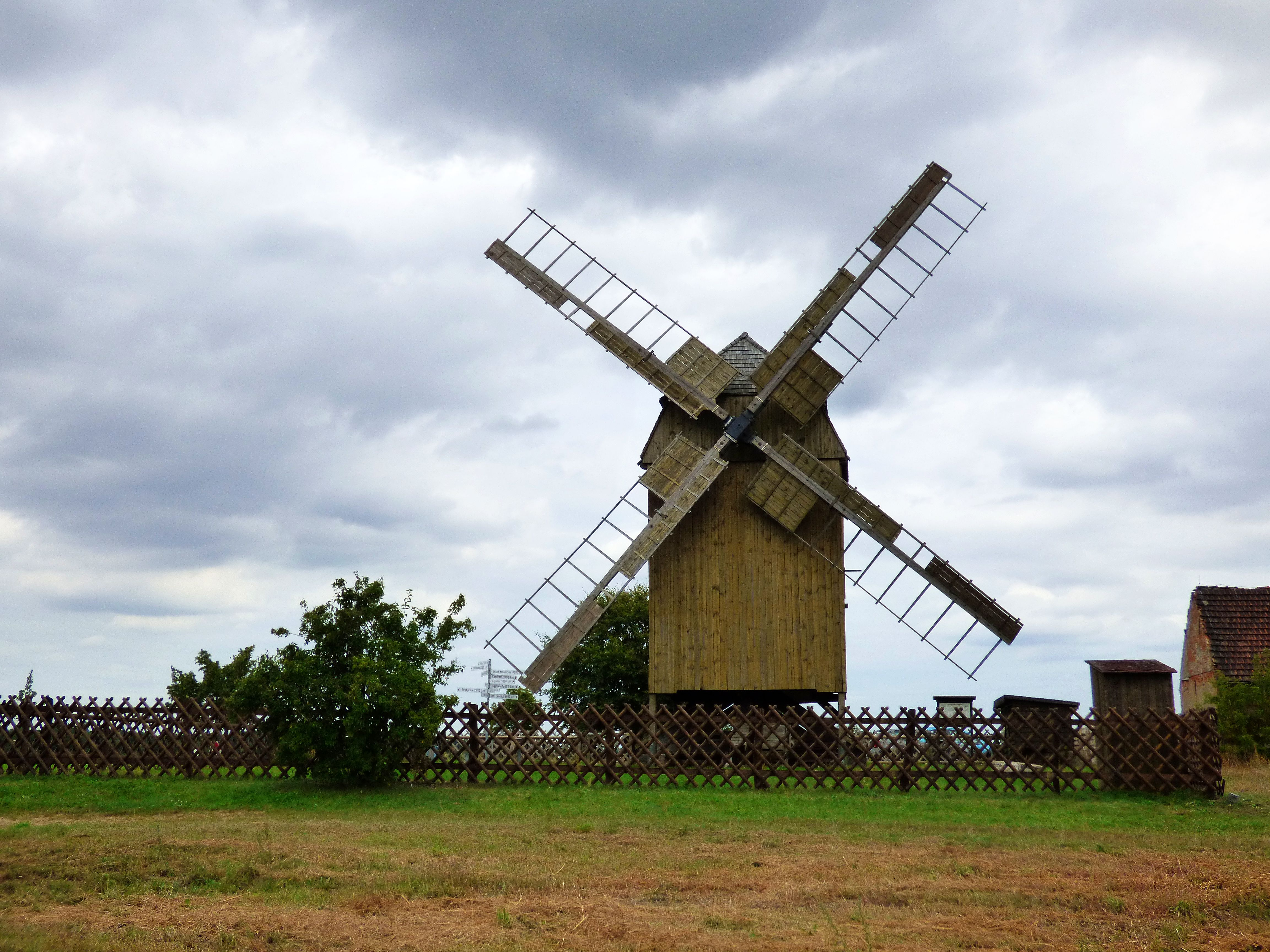 Windmill in Dreiheide-Großwig in Saxony, Germany